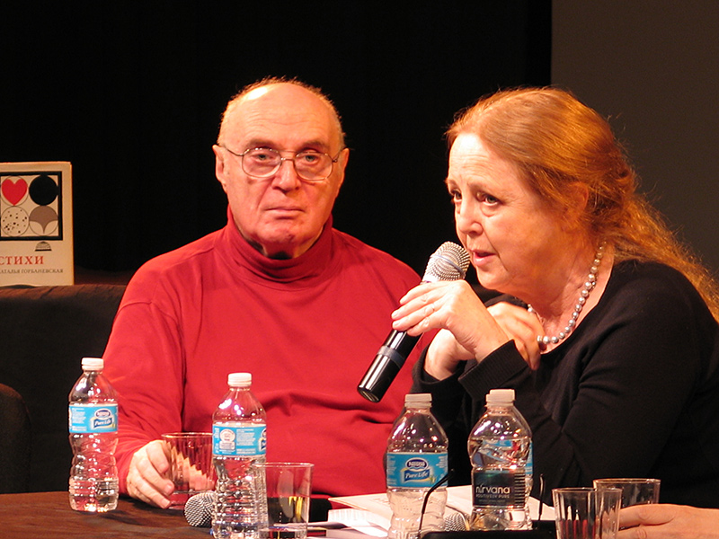 Soviet dissident Pavel Litvinov and Polish slavist Irena Grudzińska-Gross at the reading in memoriam Natalya Gorbanevskaya in Brooklyn Public Library